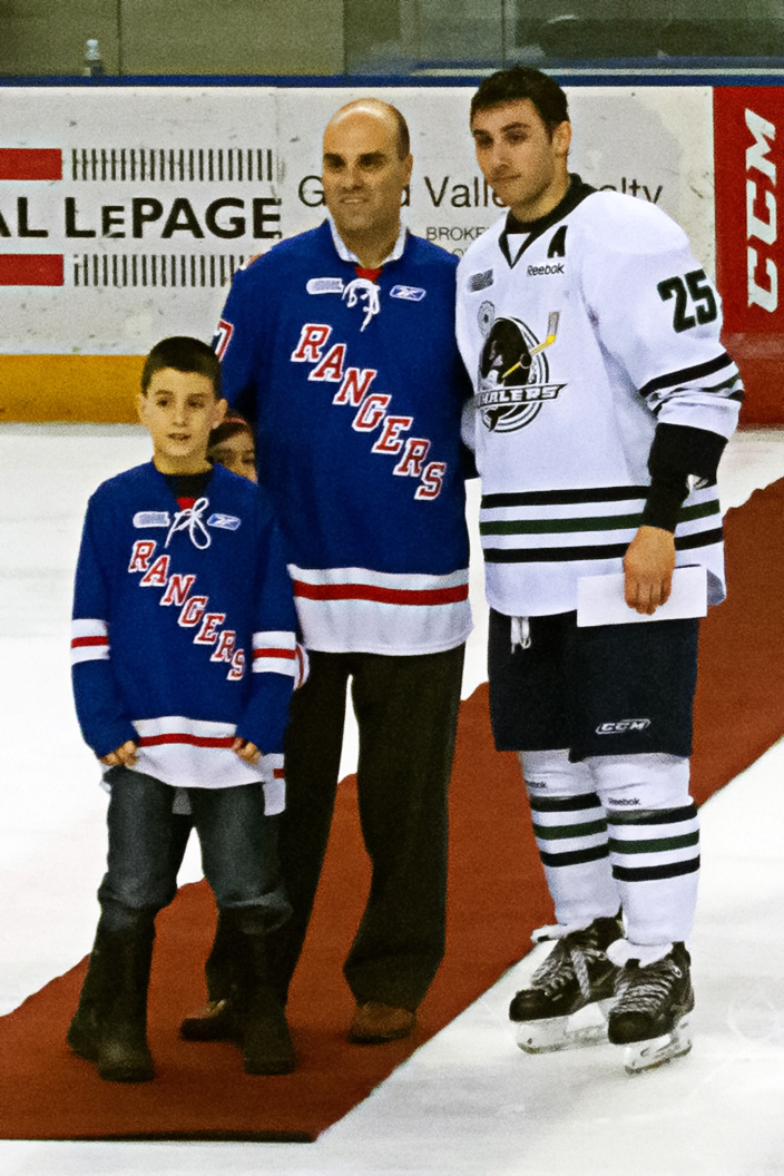 Vincent Trocheck of the Plymouth Whalers being named one of the three Stars of the game after a match against the Kitchener Rangers.